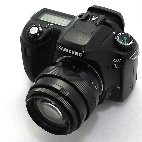 Samsung GX-1L SLR camera.